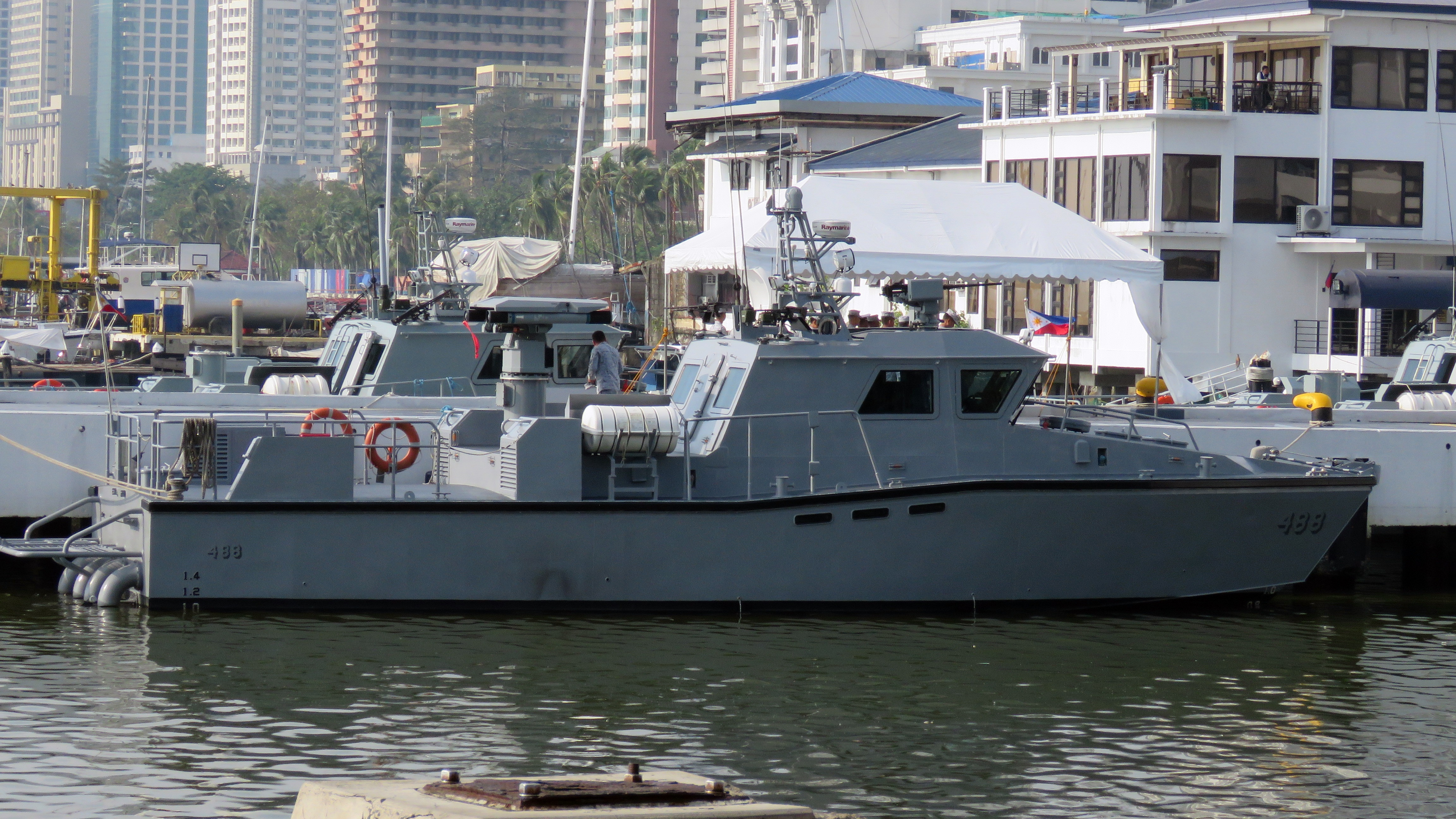 Rear view of a Multi-Purpose Attack Craft (MPAC) Mk 3 (BA-488) of the Philippine Navy (PN). Photo taken at the Naval Station Jose Andrada in Manila.